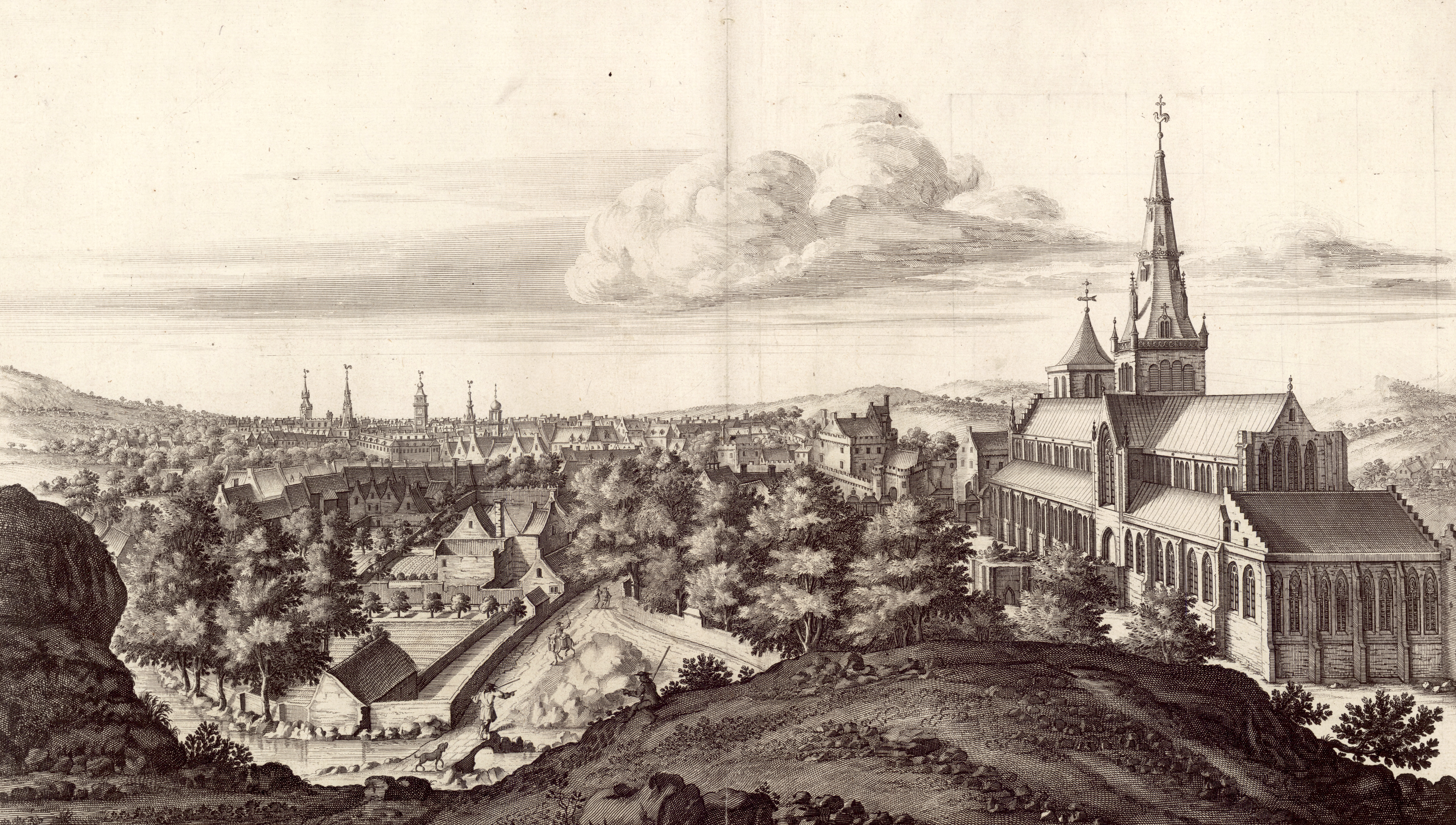 Engraving of Glasgow Cathedral from Theatrum Scotiae (1693).